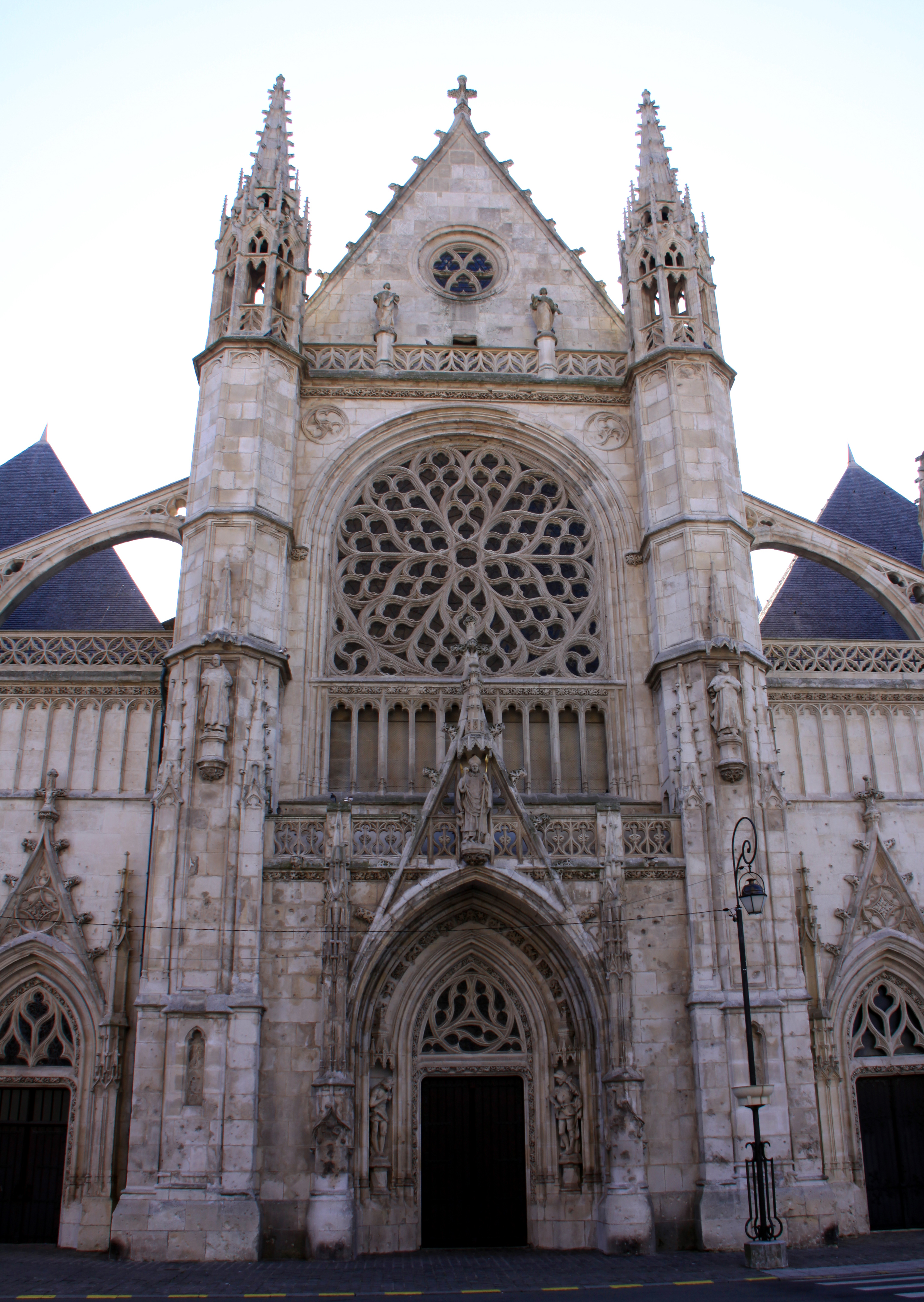 Dunkerque, Church Saint Eloi